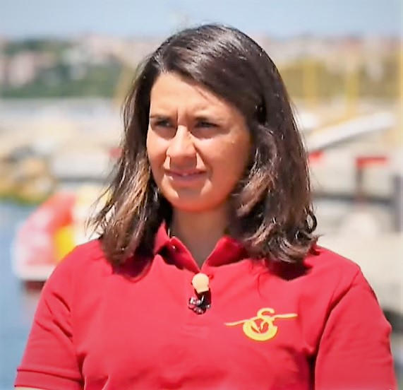 Turkish sailor Ecem Güzel in a photo interview with beIN Sports.